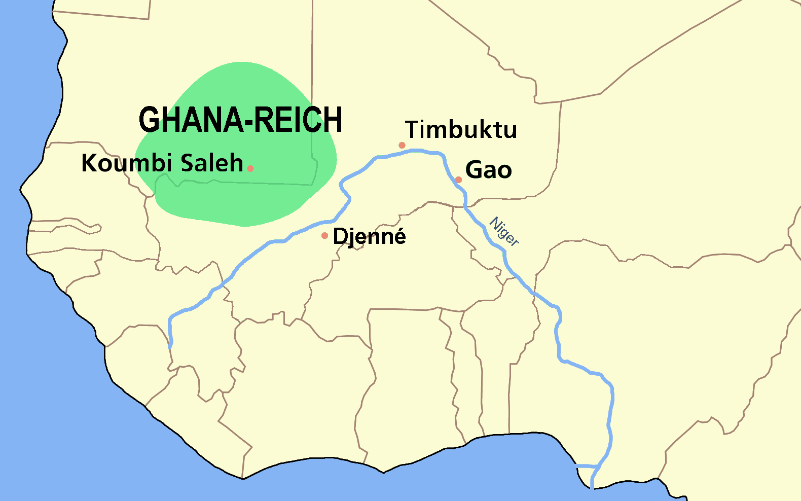 The Ghana Empire.